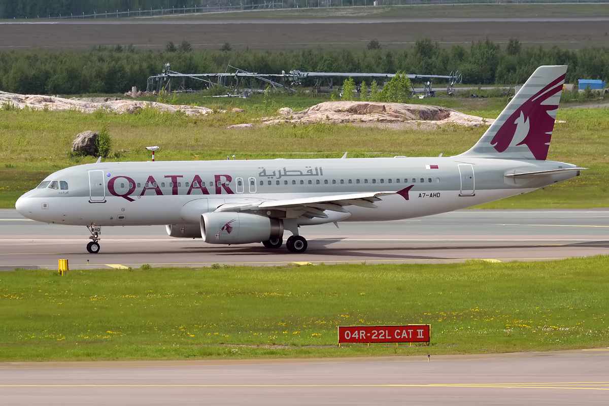 Qatar Airways, A7-AHD, Airbus A320-232